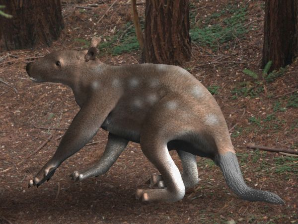 Life restoration (digital 3D art) of Ekaltadeta ima, a presumbably predatory kangaroo relative from the Miocene of Queensland, Australia.